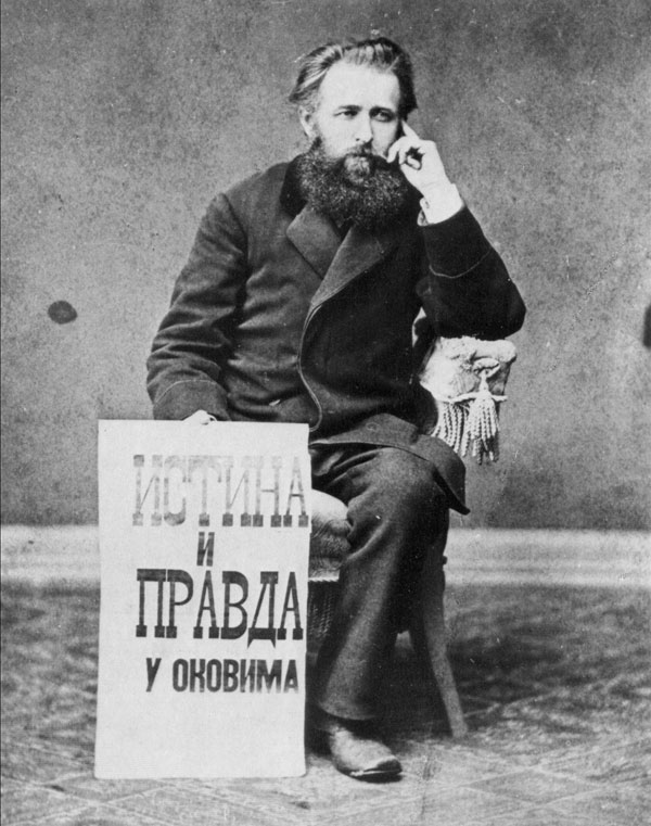 Vasa Pelagic